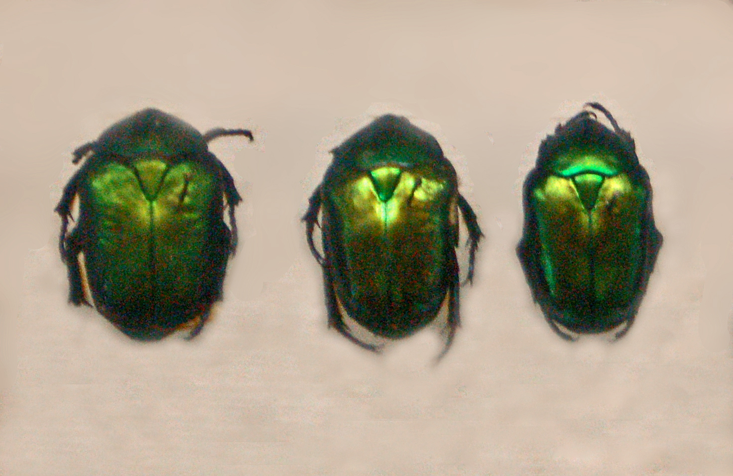 Protaetia speciosa jousselini at National Museum (Prague)